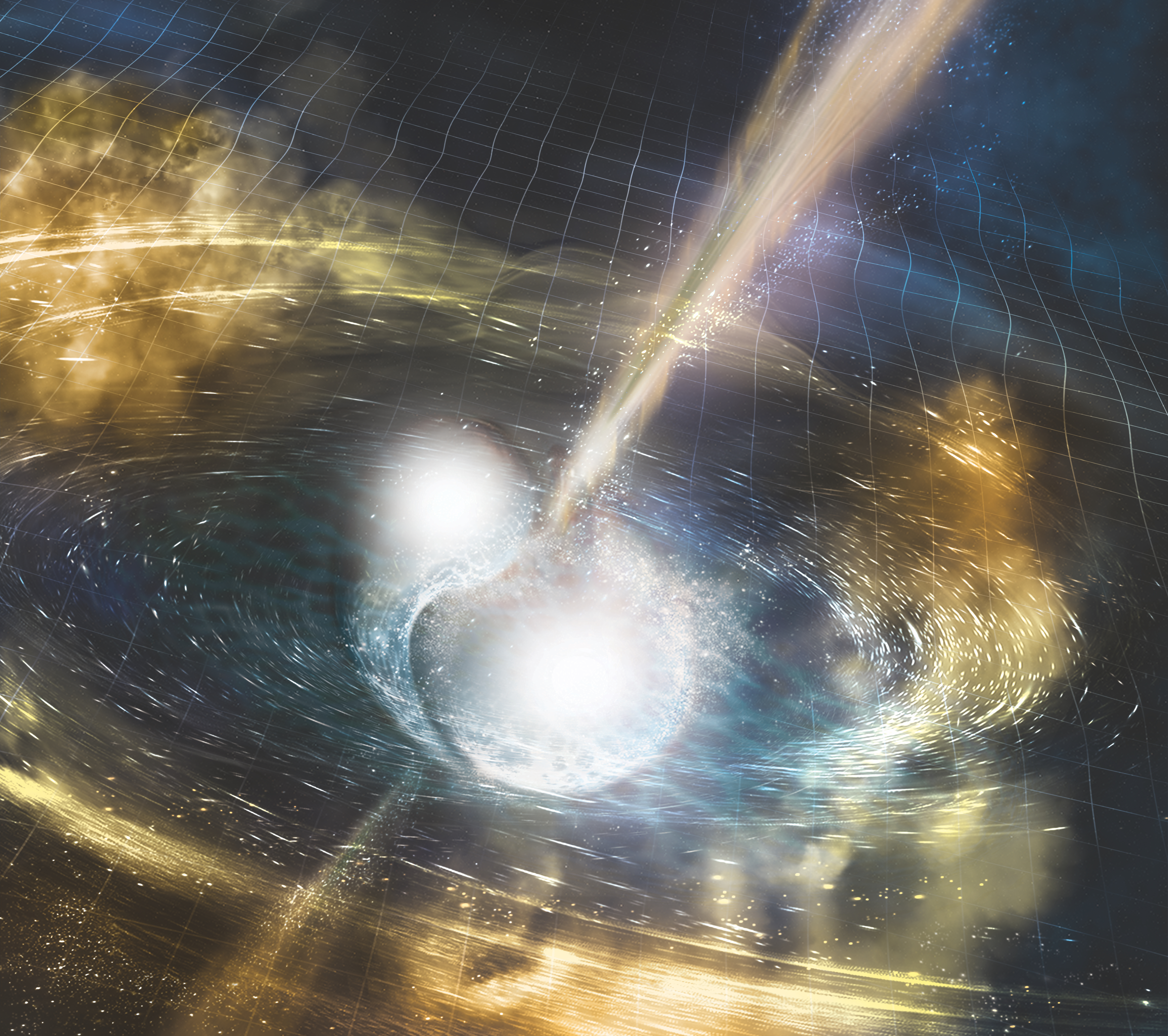 Artist’s illustration of two merging neutron stars. The rippling space-time grid represents gravitational waves that travel out from the collision, while the narrow beams show the bursts of gamma rays that are shot out just seconds after the gravitational waves. Swirling clouds of material ejected from the merging stars are also depicted. The clouds glow with visible and other wavelengths of light.